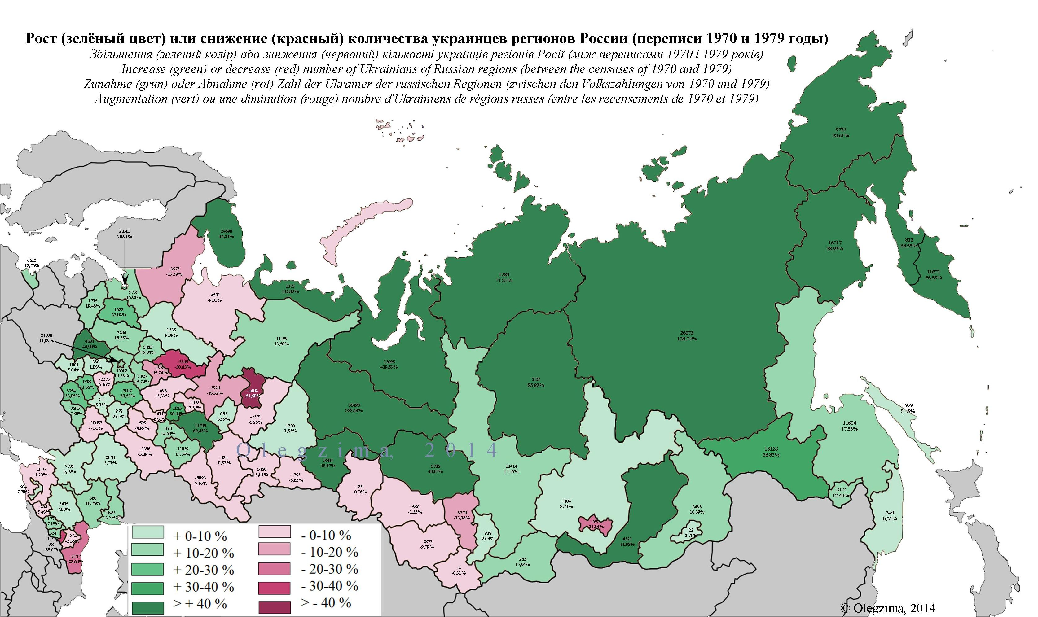 Increase (green) or decrease (red) number of Ukrainians of Russian regions (between the censuses of 1970 and 1979)